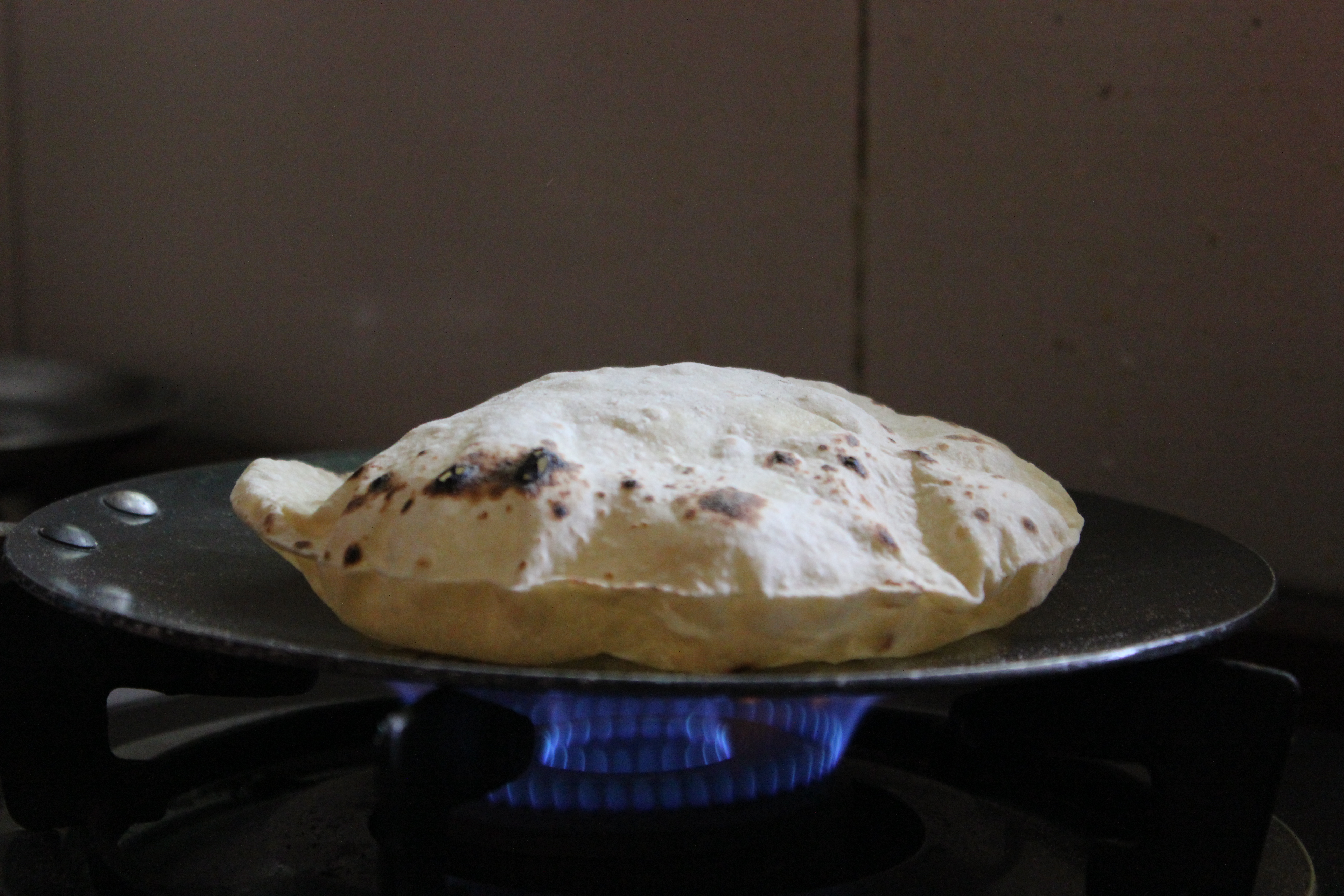 Fulka Roti on Tawa